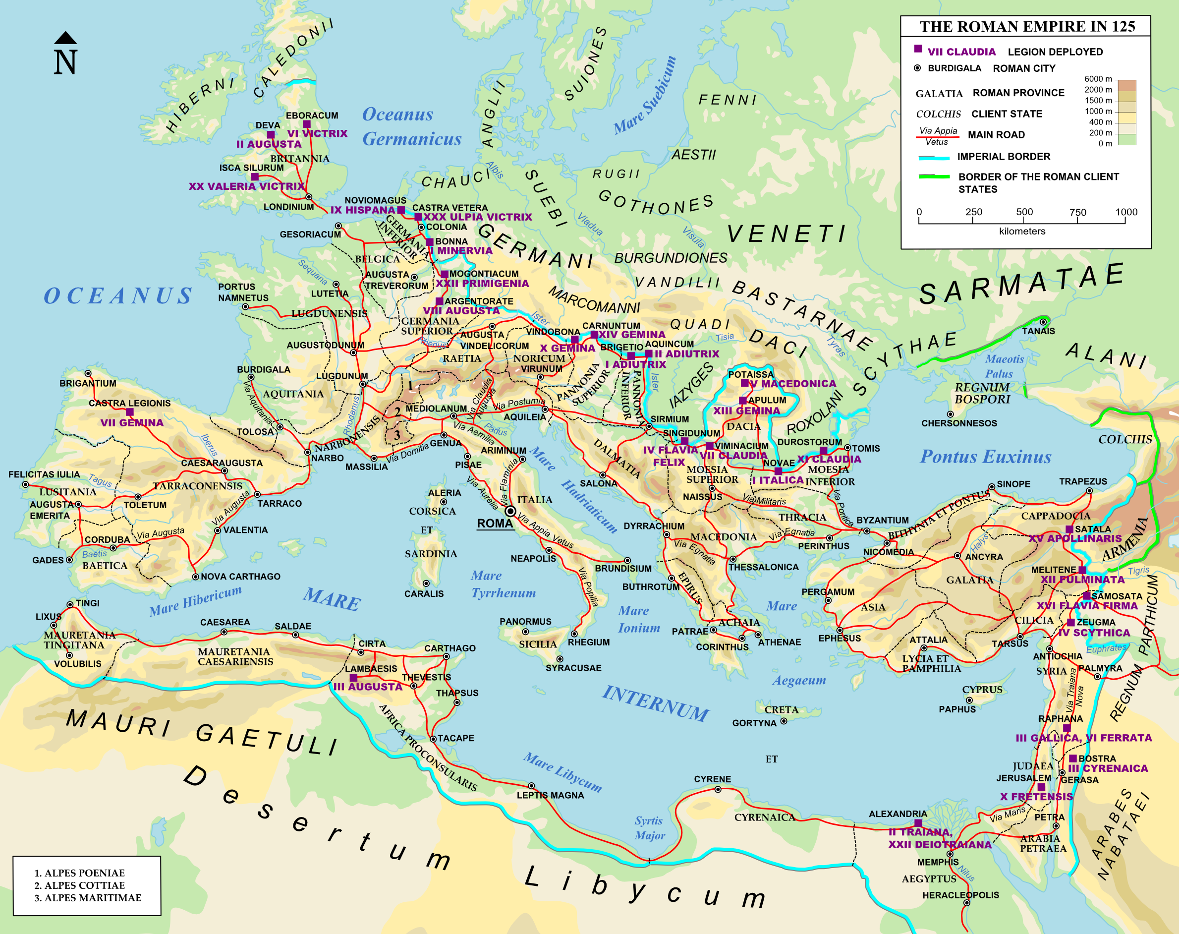 Own work.